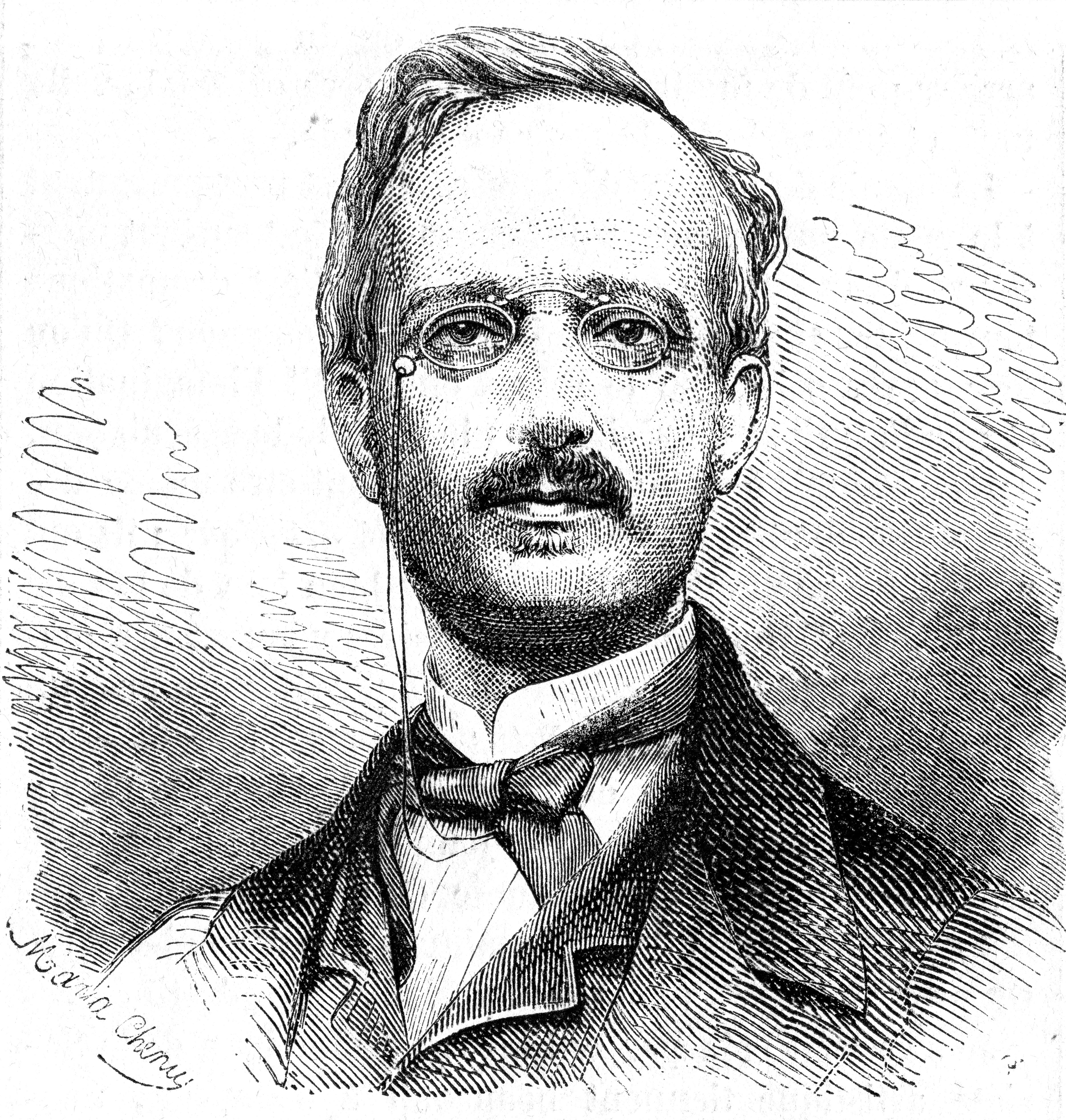 Ministre Urbain Rattazzi